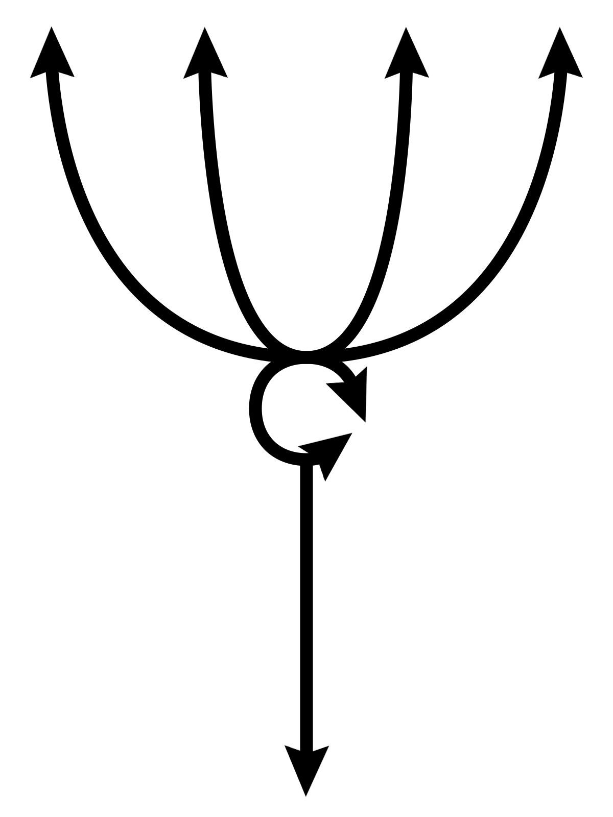 A diagram of the narrative structure of La Flor, based on the images on El Pampero Cine's official site